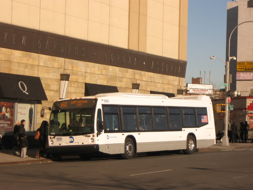 Demo bus for the MTA, #0055, operates on the Q60 by Queens Center Mall.